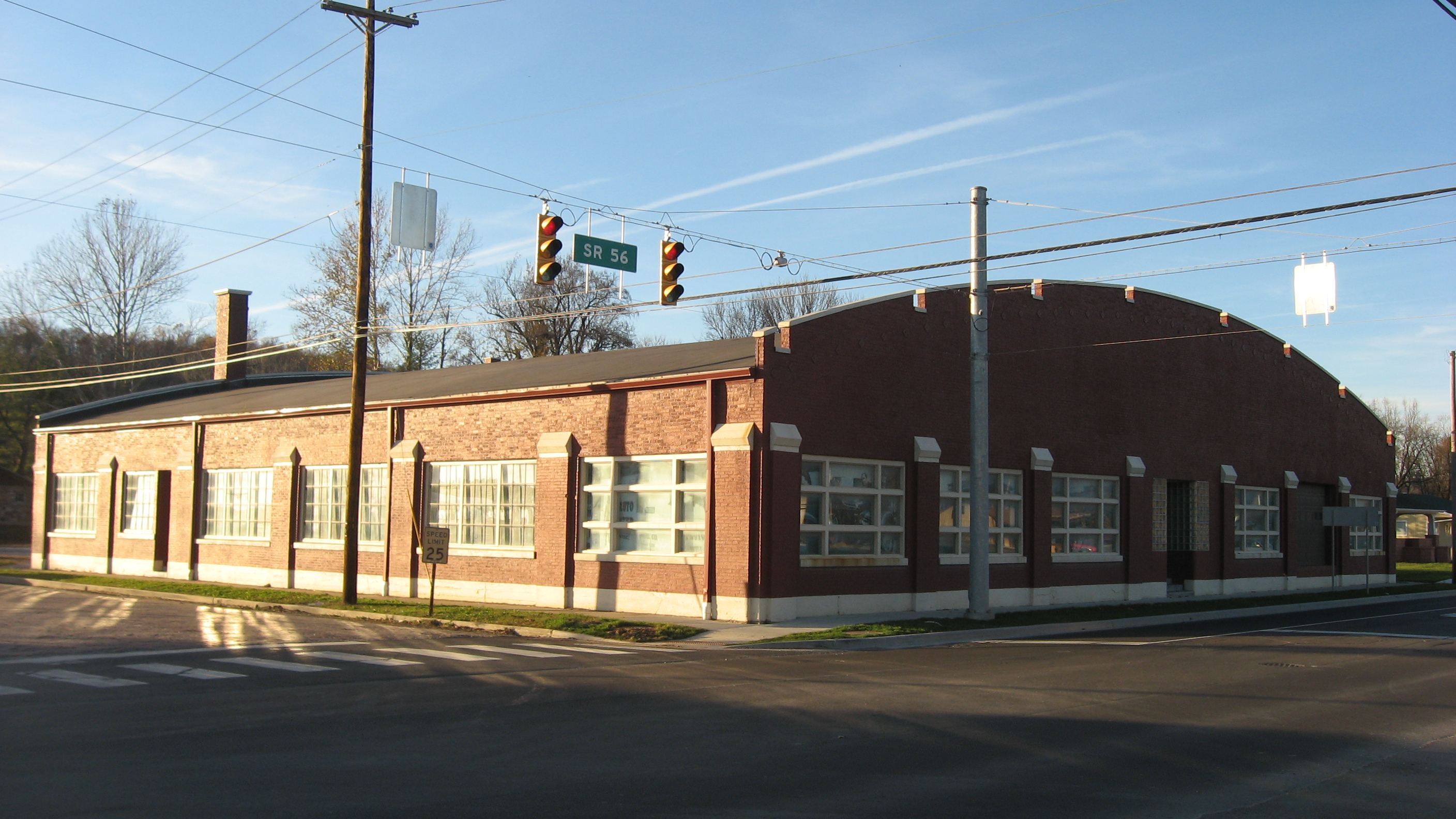 Front and southern side of the Dixie Garage, located on the northwestern corner of the junction of Elm and Sinclair Street and State Road 56 in West Baden Springs, Indiana, United States. Built in 1918, it is listed on the National Register of Historic Places.